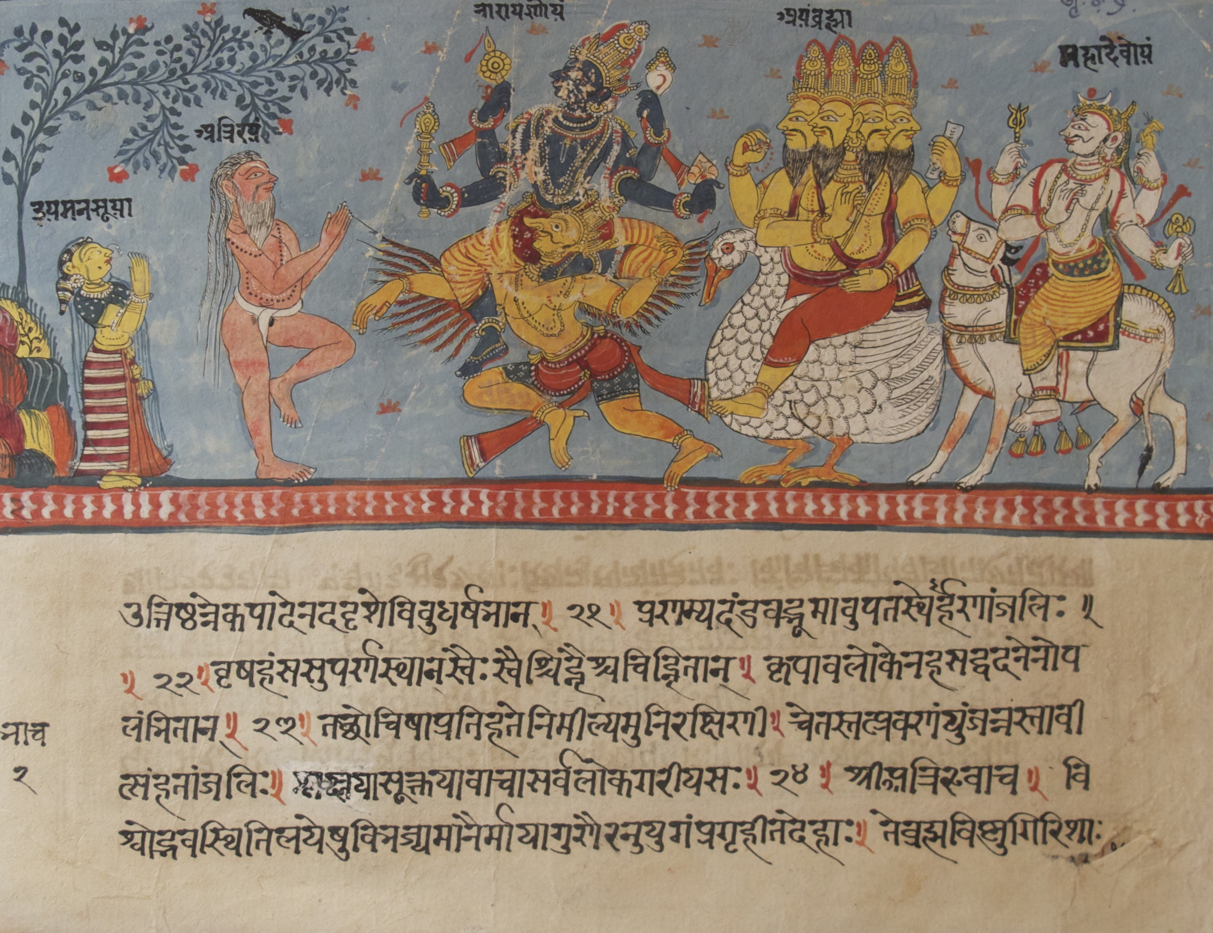 A page of a Bhagavata Purana illustrated manuscript in Devanagari, supposedly prepared for Maharaja Pratap Simha of Jaipur (1779-1803). Cropped. The page contains a passage from the 4th canto, 1st chapter, texts 21 (incomplete) through 25 (incomplete) of the Bhagavata Purana describing the encounter of the Vedic sage Atri Rishi and his wife Anasuya with the Trimurti: Vishnu, Brahma and Shiva seated on their respective vahanas. The episode is depicted in the upper part of the image above the Devanagari script in Odishi style.